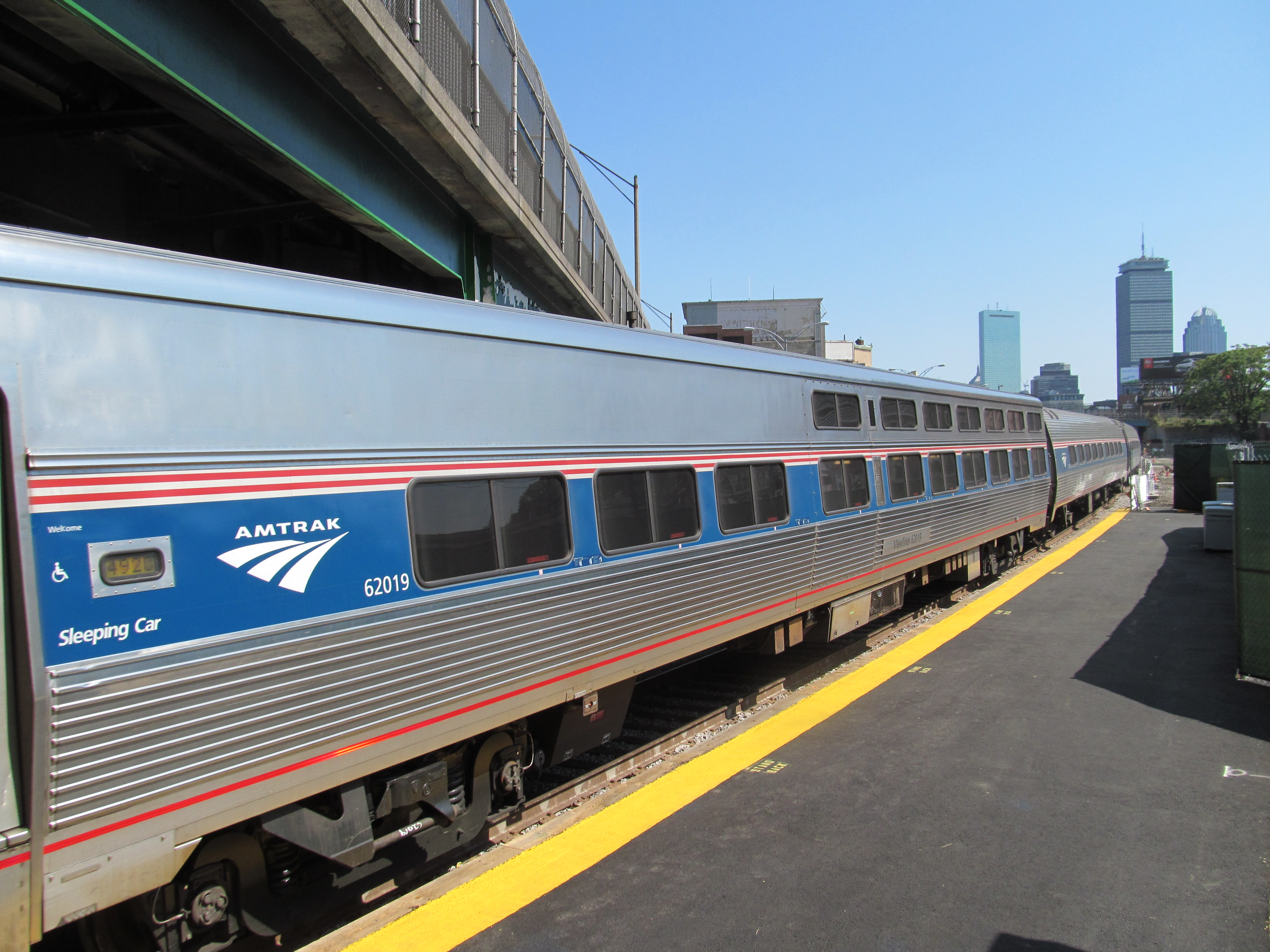 Viewliner #62019 passes through Yawkey station in Boston on the westbound Boston-Albany leg of the Lake Shore Limited.